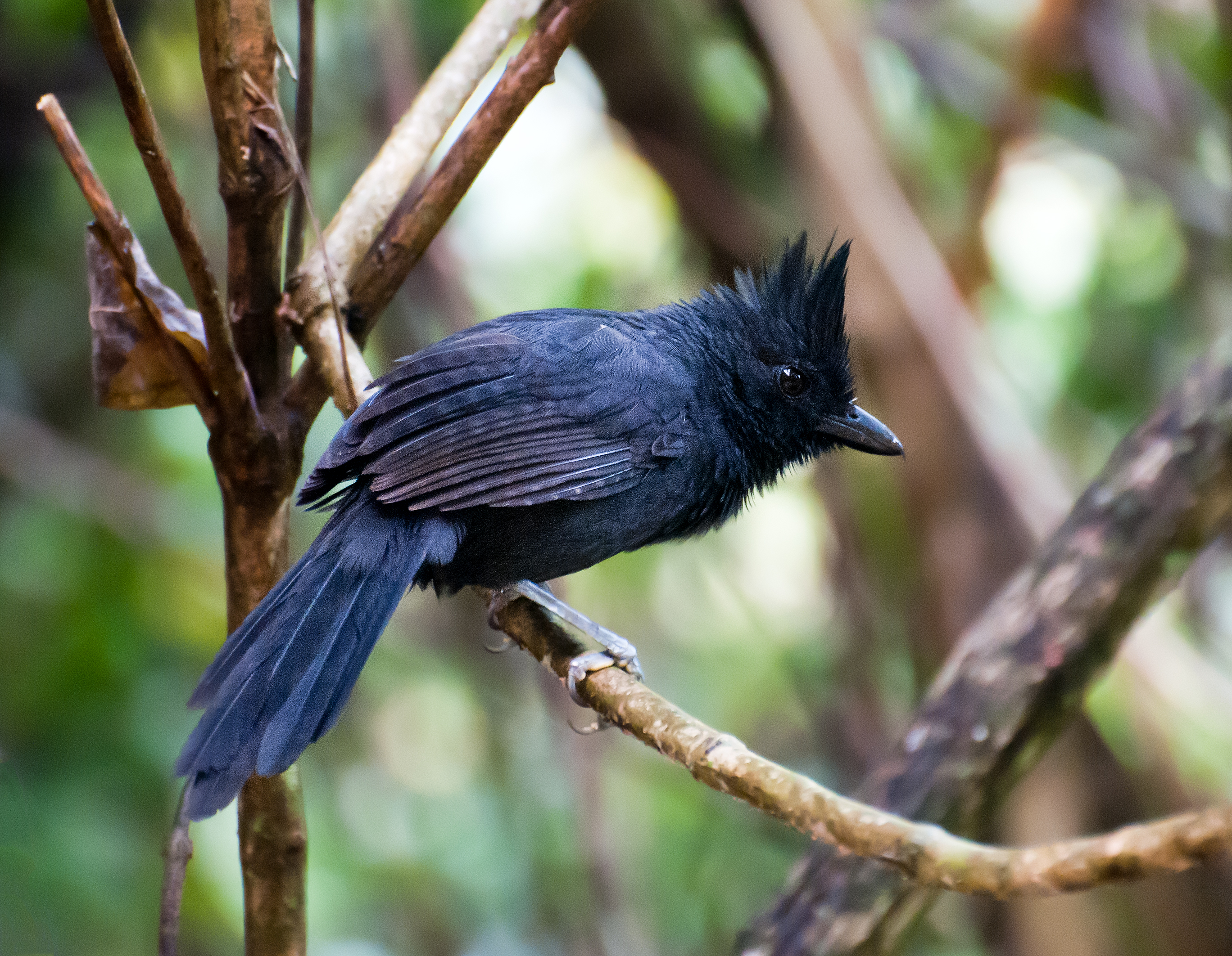 A male Tufted Antshrike in Piraju, São Paulo, Brazil.